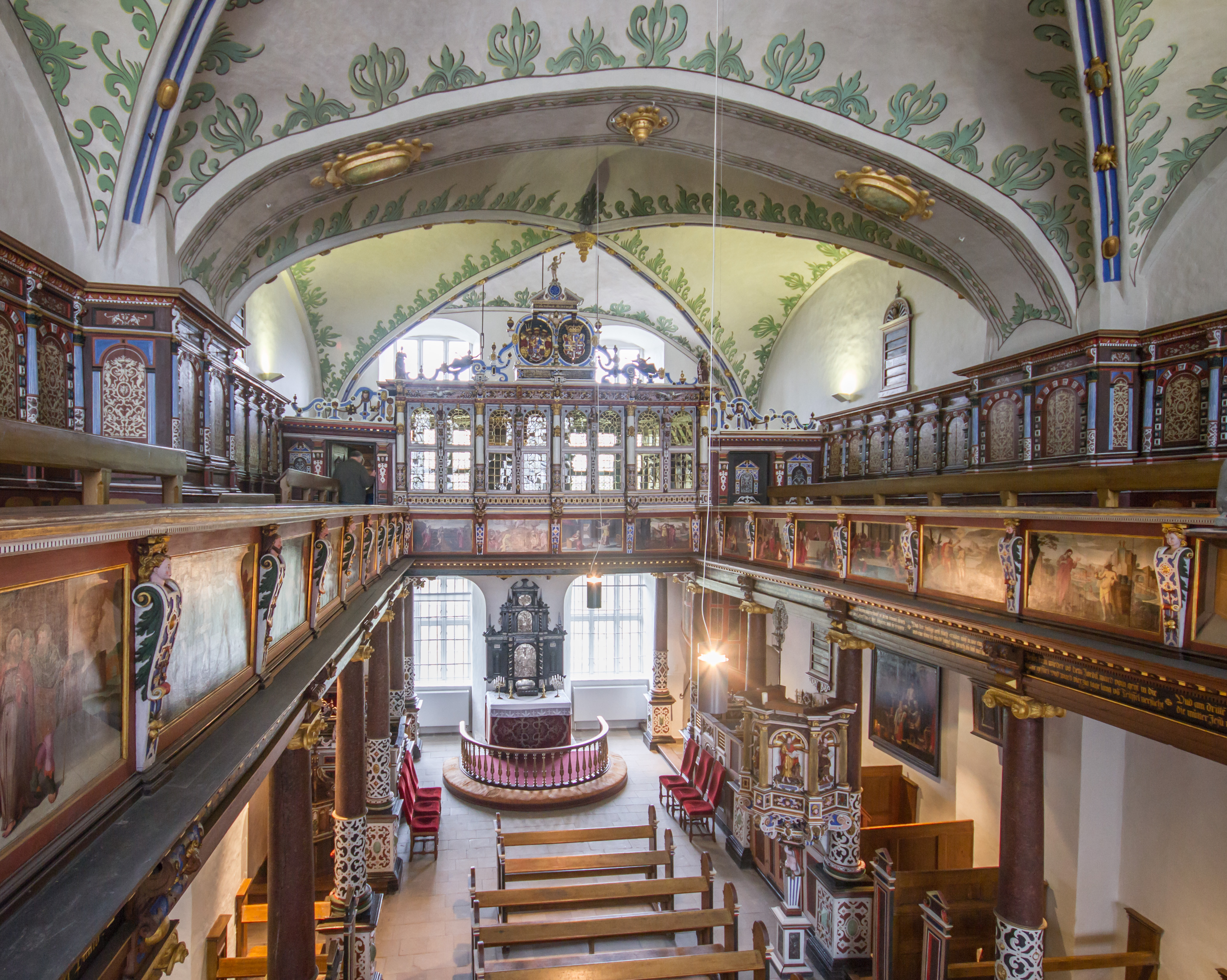 The Schlosskapelle Gottorf